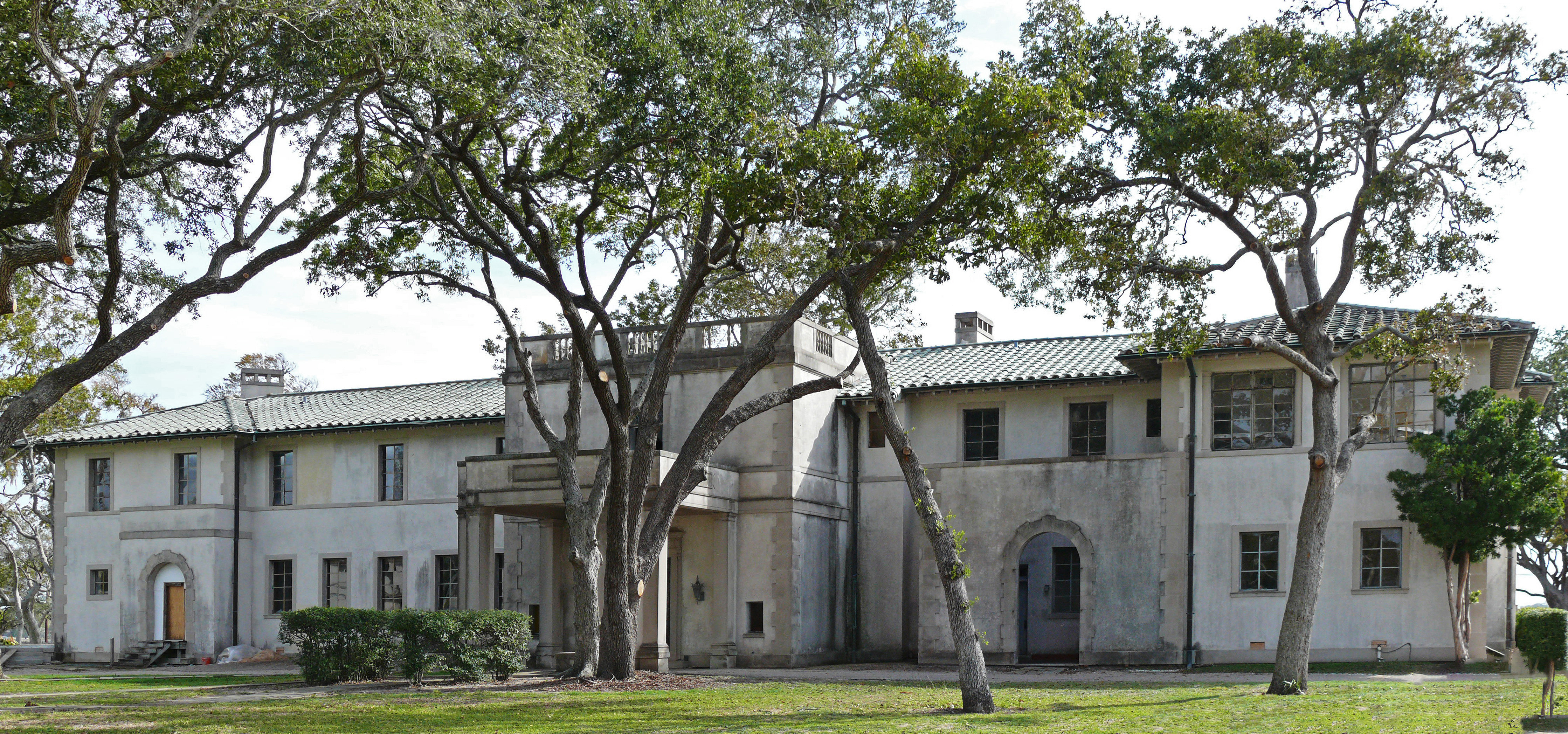 Lumber, oil, and ranching tycoon James Marion West (1871-1941) and his wife, Jessie Dudley (1871-1953), hired eminent Houston architect Joseph Finger to design this 17,000-square foot house as headquarters for their 30,000-acre ranch. Built in 1929-30, it is an excellent example of the Italian renaissance revival style. It features exceptional ironwork by Berger & Son, classical pediments and arched windows. This view is of the front of the mansion which faces away from the NASA 1 highway